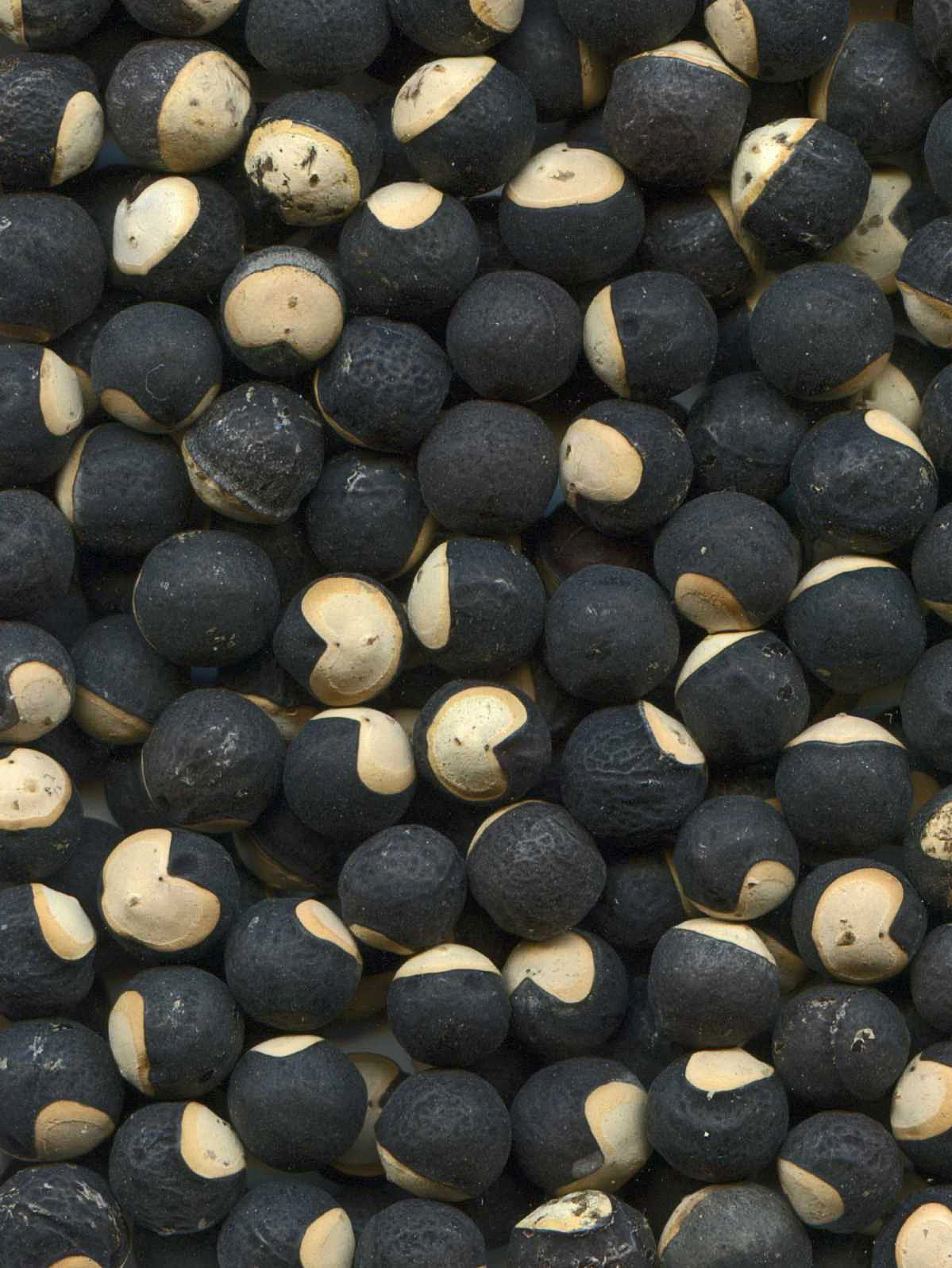 Cardiospermum halicacabum, Sapindaceae, Balloonvine, seeds (seed diam. about 4 mm). The blooming plants are used in homeopathy as remedy: Cardiospermum (Cardi-h.)